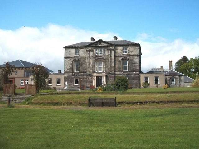 Blair Castle Don't know full history, but the buildings and extensions are now owned by the Scottish Mining Convalescent Trust. Spotted the estate on Google Earth and had to investigate.